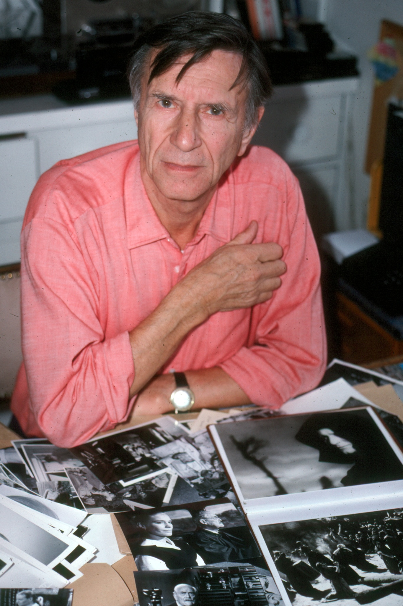 Gunnar Fischer talks about his work as a cinematographer during a visit to his home by student Glen Gustafson in 1985. Photo taken and uploaded by Glen Gustafson.